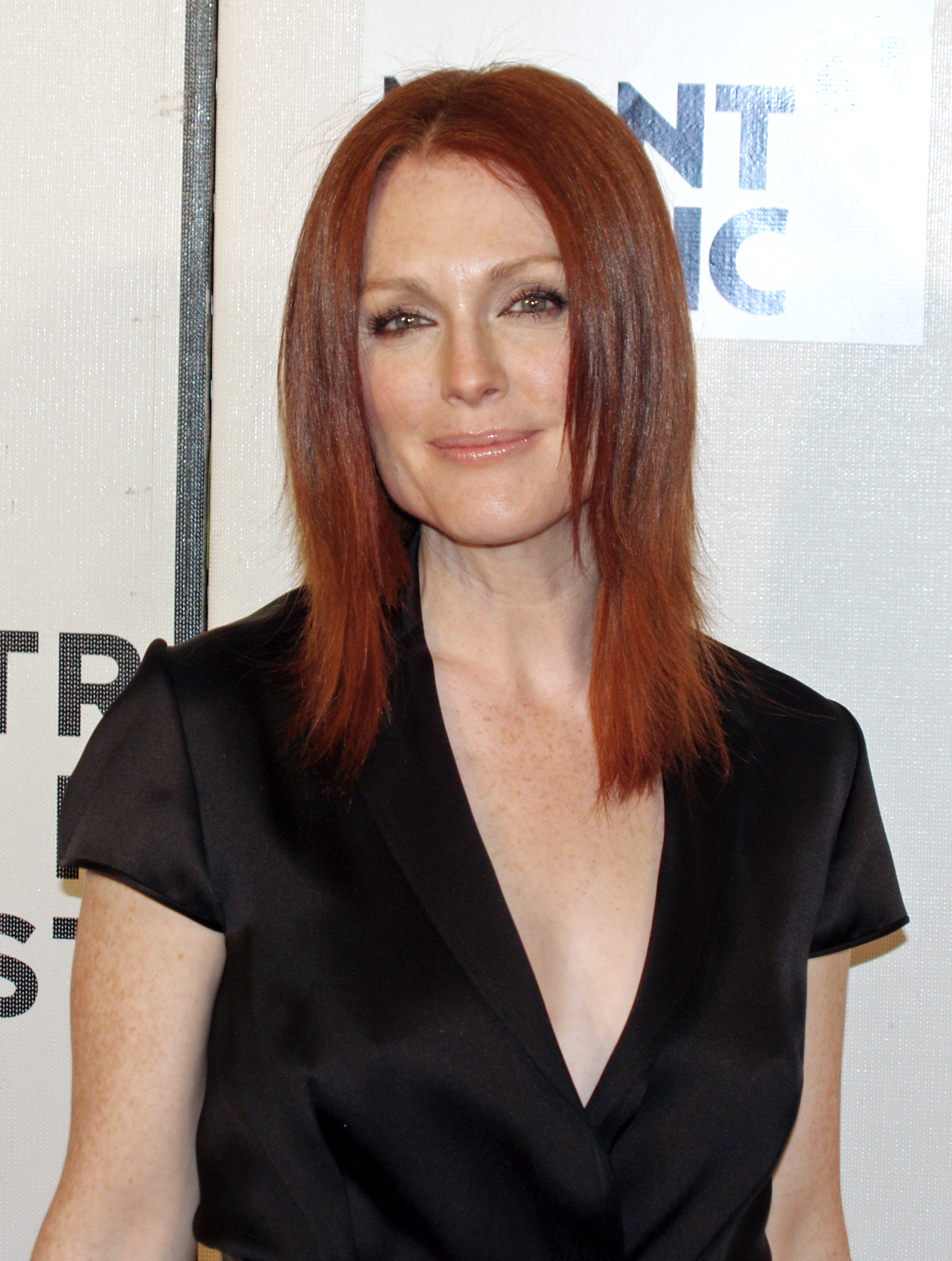 Julianne Moore at the premiere of Savage Grace at the 2008 Tribeca Film Festival.